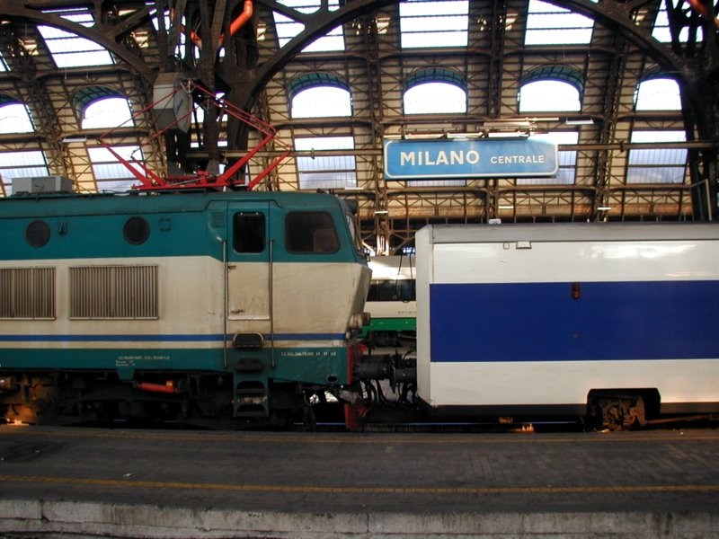 A view of Milano-Centrale station within the Trenhotel to Barcelona-Sants.